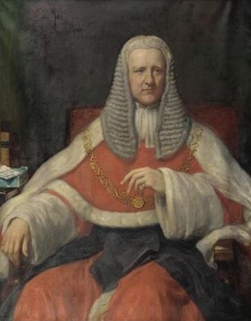 John Coleridge, 1st Baron Coleridge (1820-1894)